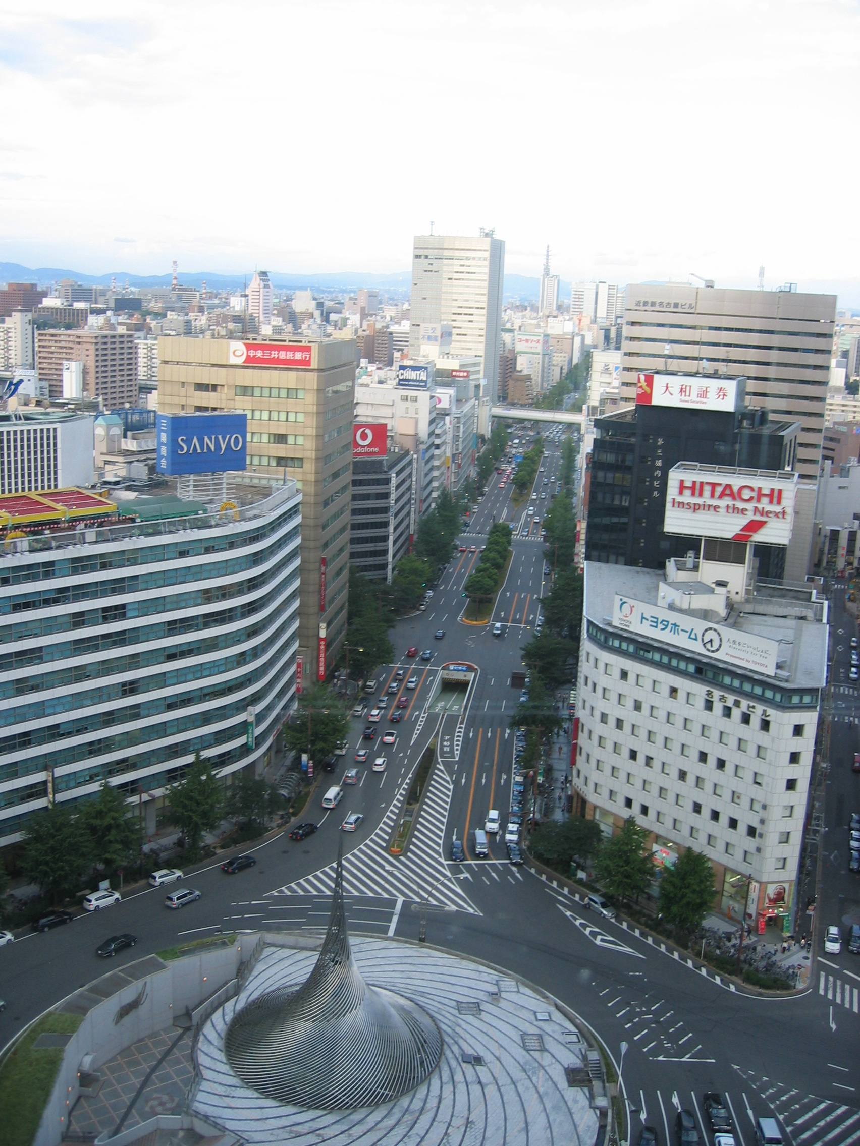 The Sakura-dori avenue in Nagoya City, Aichi Prefecture, Japan, as seen in front of Nagoya Station